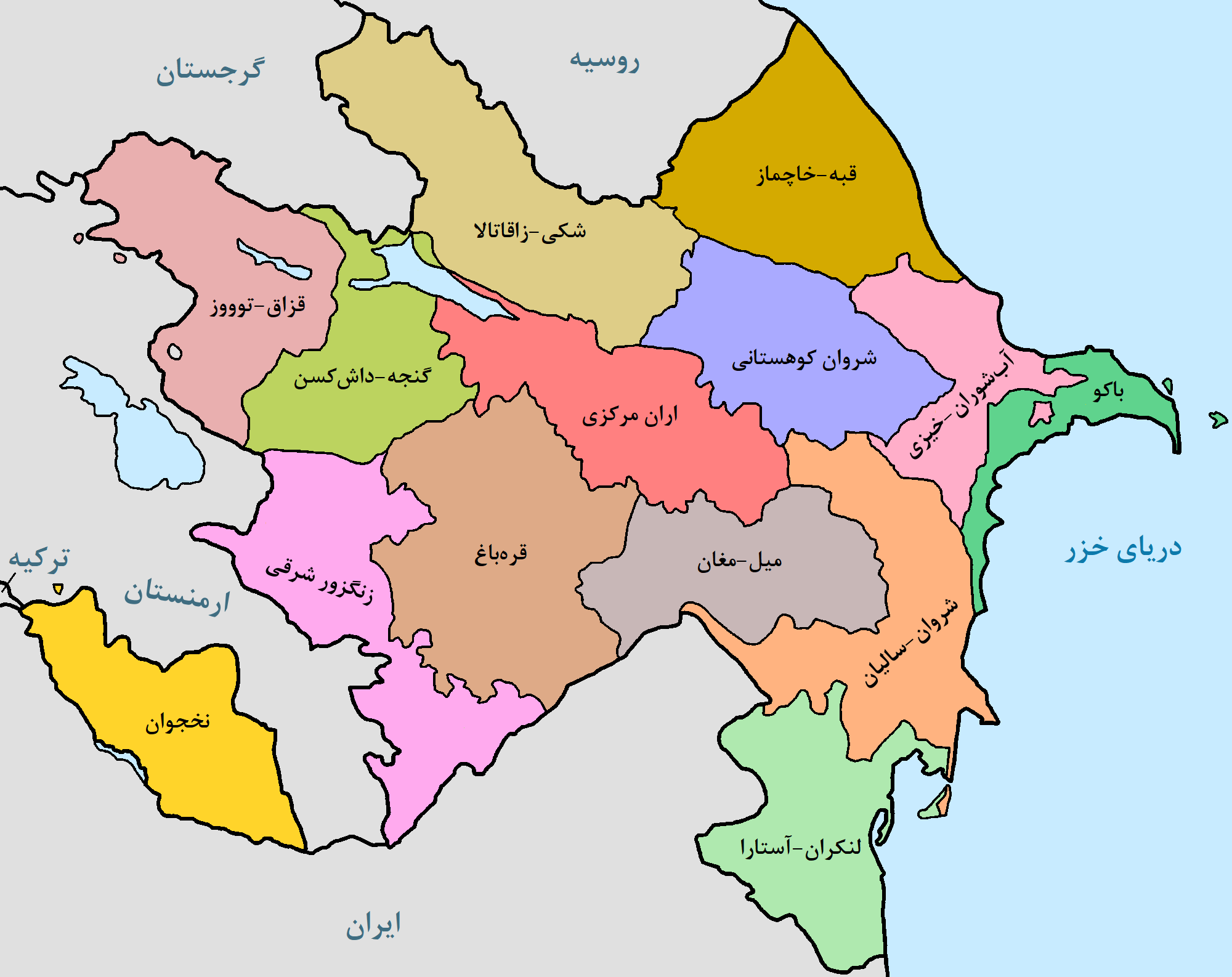 Districts of the Republic of Azerbaijan